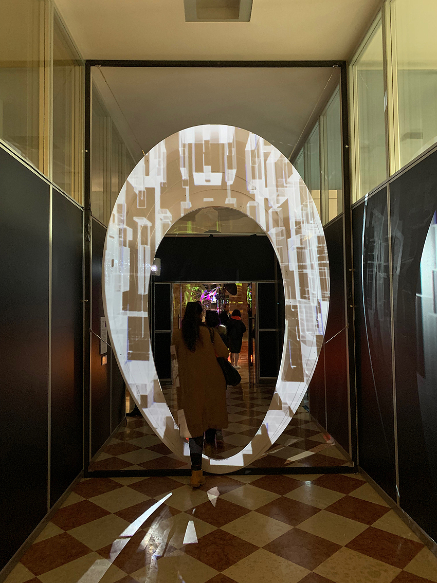 "Far from Home" Generative Art Installation, Florencia Brück&Javier Krasuk & Harro Schmidt iRv. Pavilion O2 zur Biennale Venedig 2019 at Giudecca Art District, Fabbrica H3 di SerendDPT, Campo Sacosmo